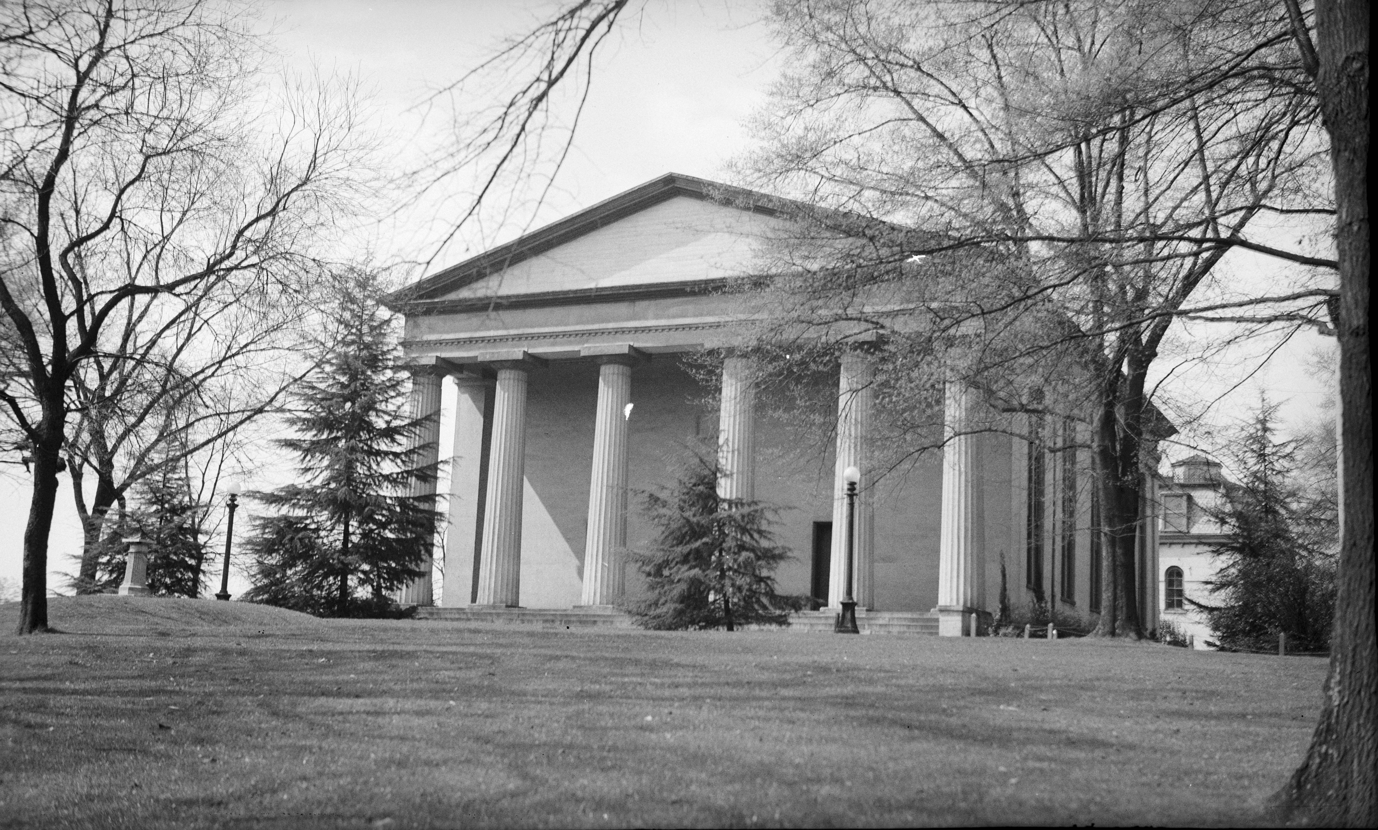 University of Georgia Chapel, Athens, Clarke County, GA